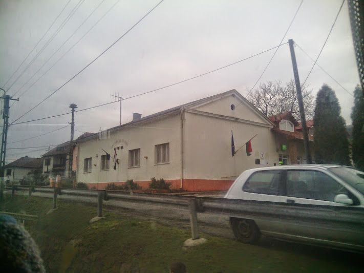 Town Hall, Borsodnádasd.